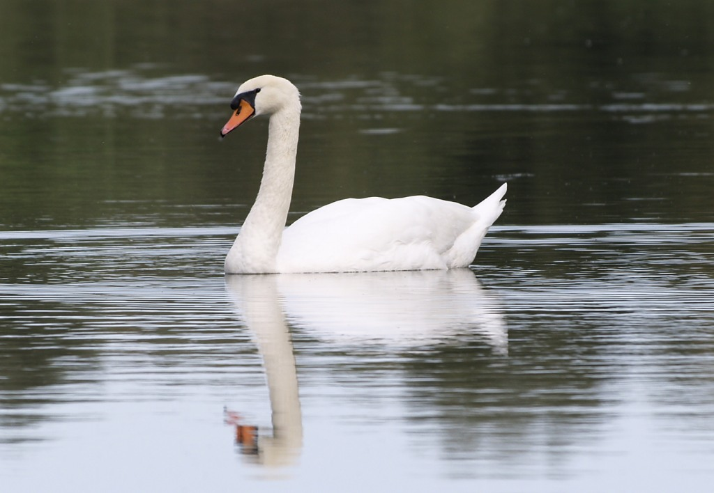 Mute Swan swimming in the river Segre, near Montoliu de Lleida (Catalonia).